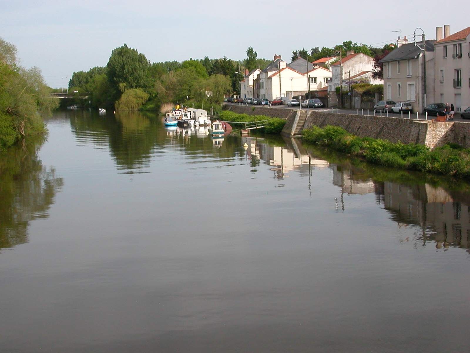 The banks of the Sèvre Nantaise in Rezé